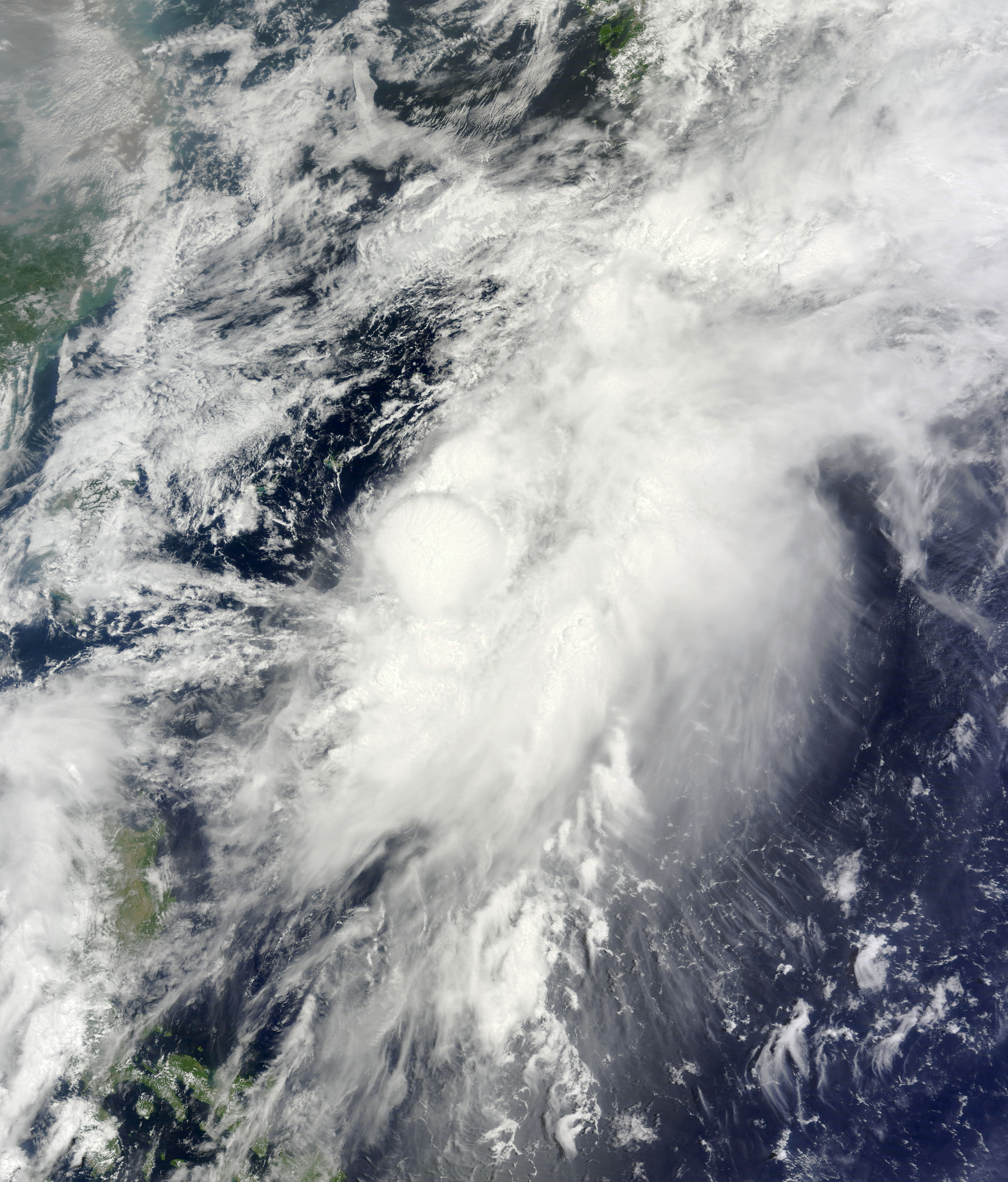 Tropical Storm Mitag on June 11, 2014